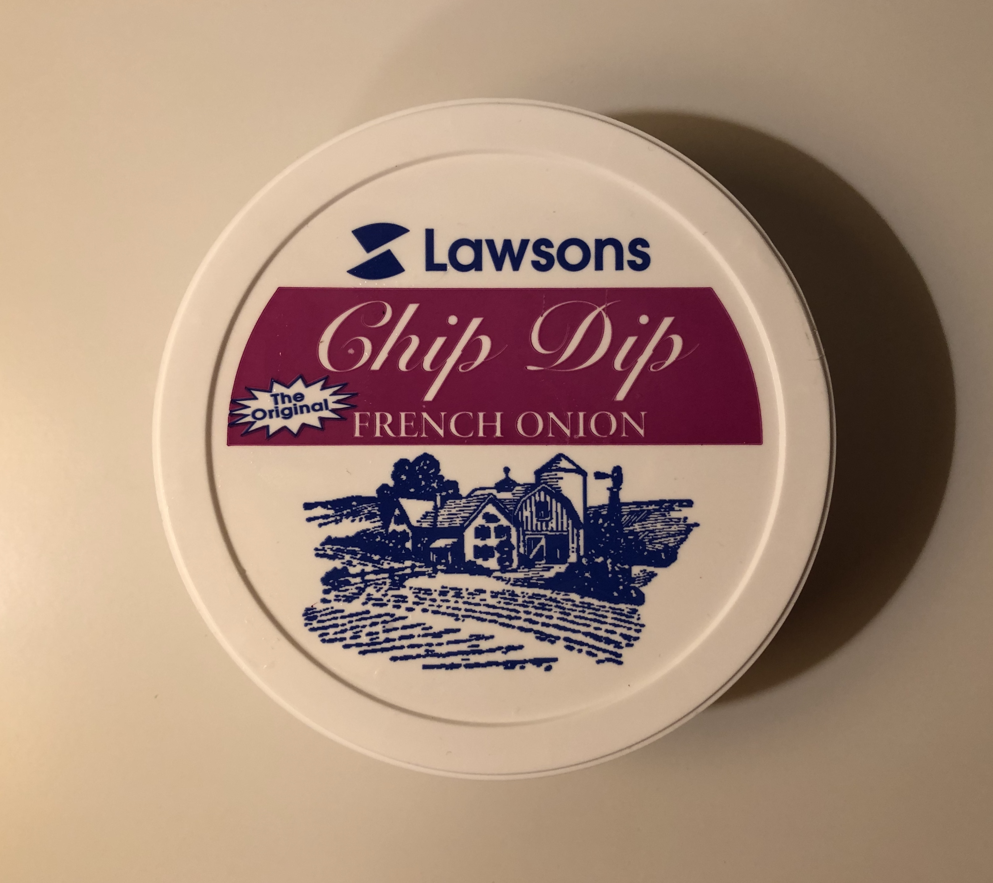 Lawsons Chip Dip from an Ohio convenience store. Despite the company leaving for Japan, some of their products are still carried in a few Circle K's that were converted from Lawsons.